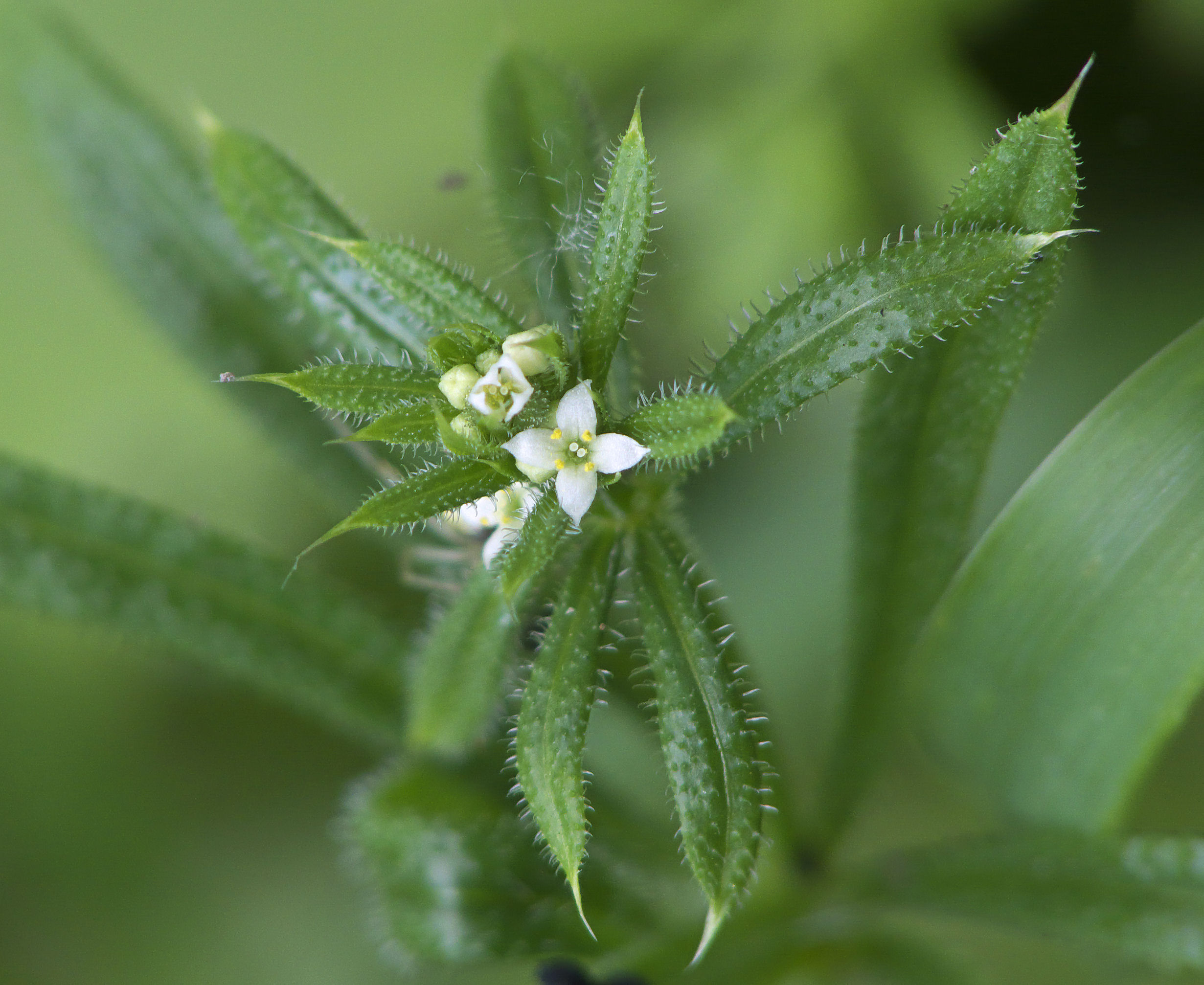 Galium aparine